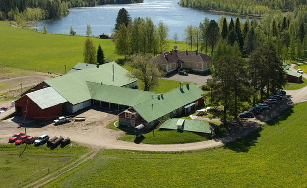 Salli headquarter and production in Rautalampi Finland